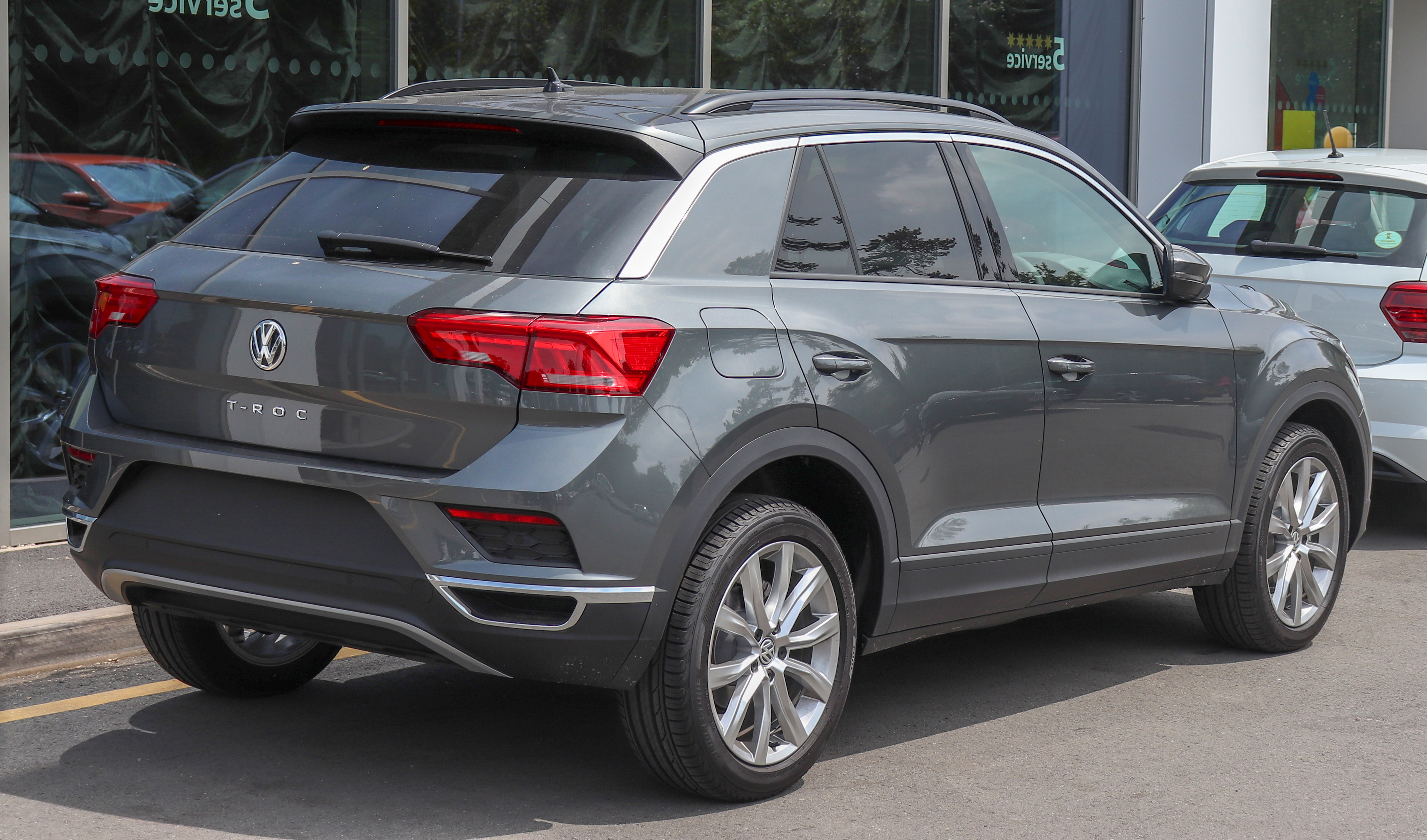 2018 Volkswagen T-Roc Rear Taken in Solihull